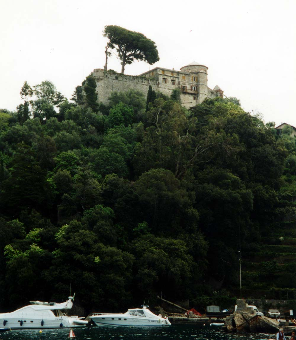 Portofino castle